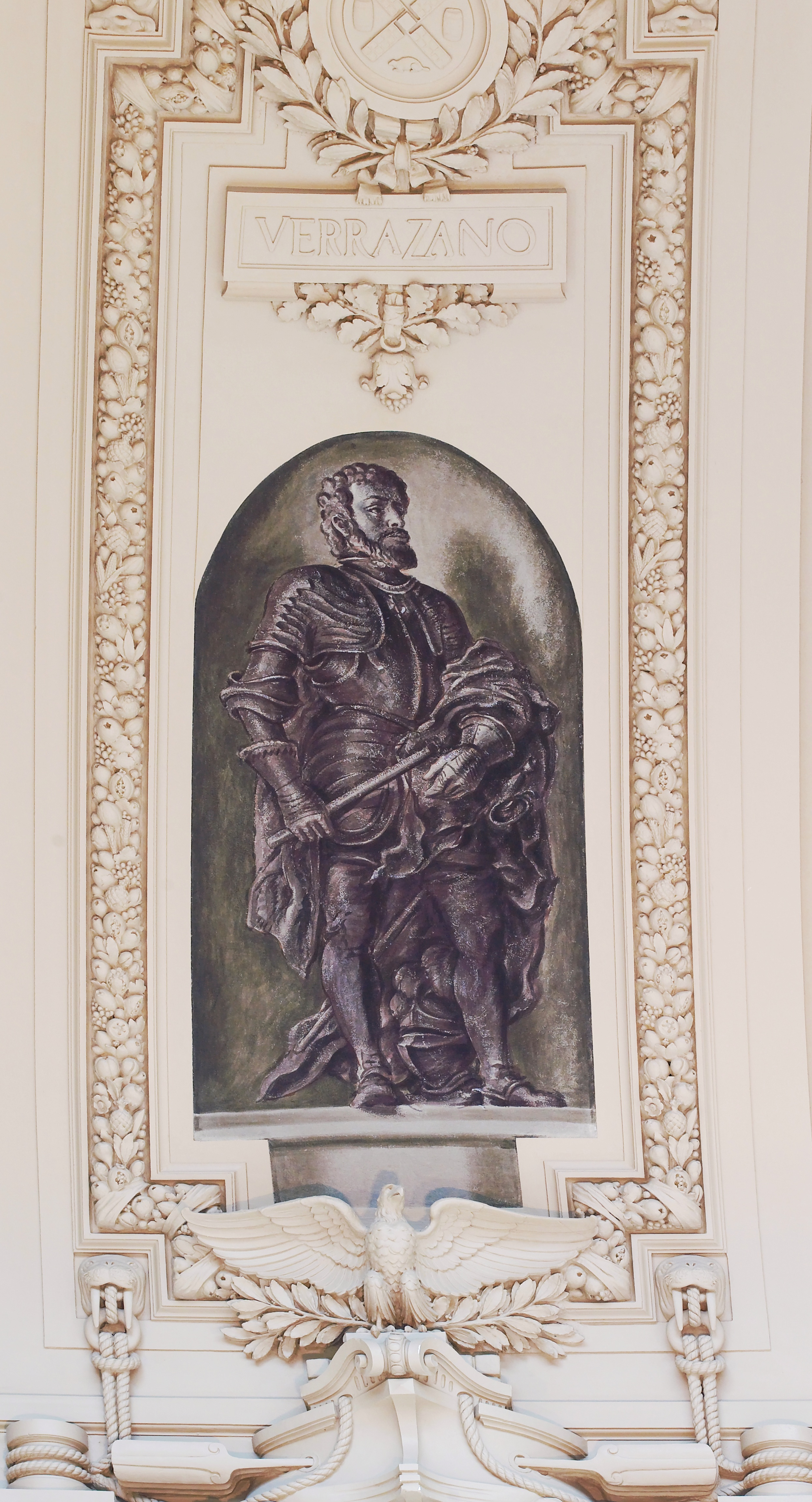 Modified version of a photograph of fresco painting "Explorer Verrazano" located in rotunda, Alexander Hamilton U.S. Custom House, New York, New York Notes: Artist: Reginald Marsh, 1937. Photographed as part of an assignment for the General Services Administration. Title information, date, and subject note provided by the photographer. Credit line: Photographs in the Carol M. Highsmith Archive, Library of Congress, Prints and Photographs Division. Gift; Carol M. Highsmith; 2009; (DLC/PP-2009:083). Forms part of the Carol M. Highsmith Archive. More information